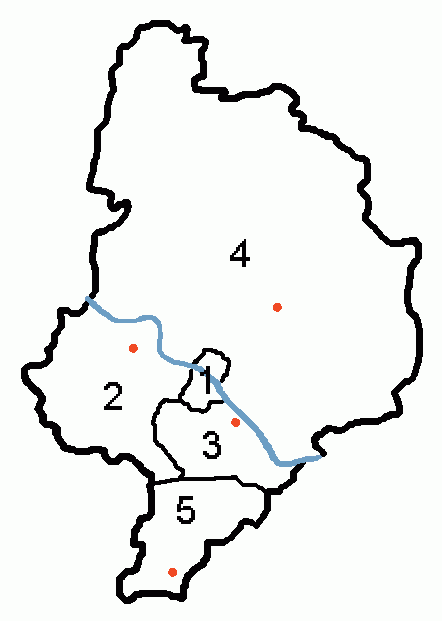 Municipalities of Tutaevsky District